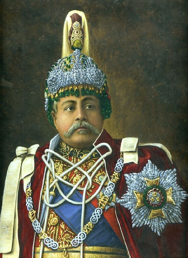 Juddha Shamsher JBR (1875-1952), PM of Nepal and Maharaja of Kaski and Lamjung between 1932 and 1945 and the portrait commissioned in his reign.